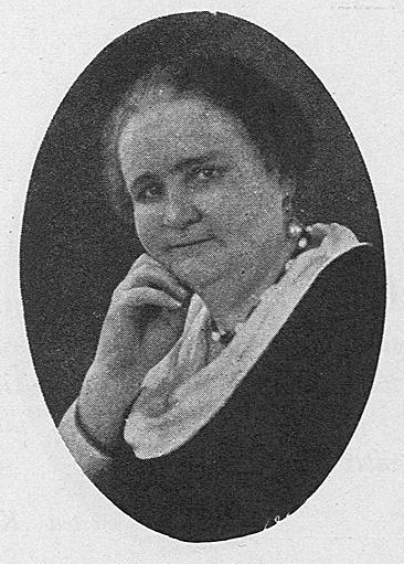 Finnish theatre personality, photographed in early 1930s.